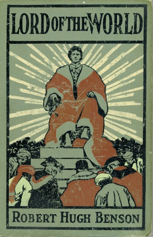 Original book cover of Lord of the World by Robert Hugh Benson